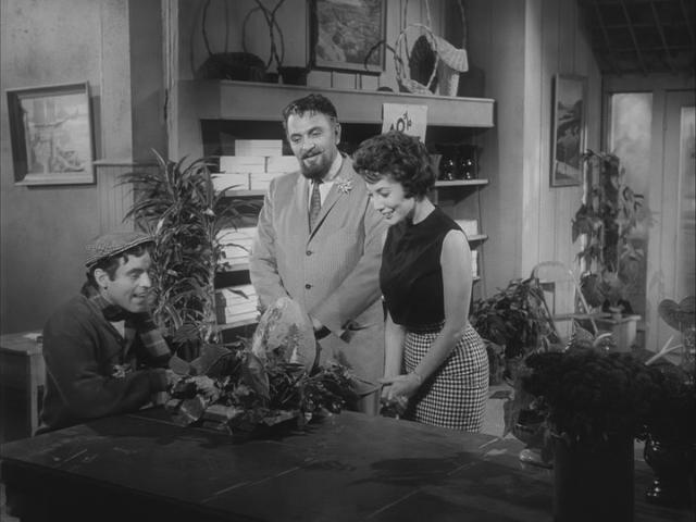 A scene from The Little Shop of Horrors.